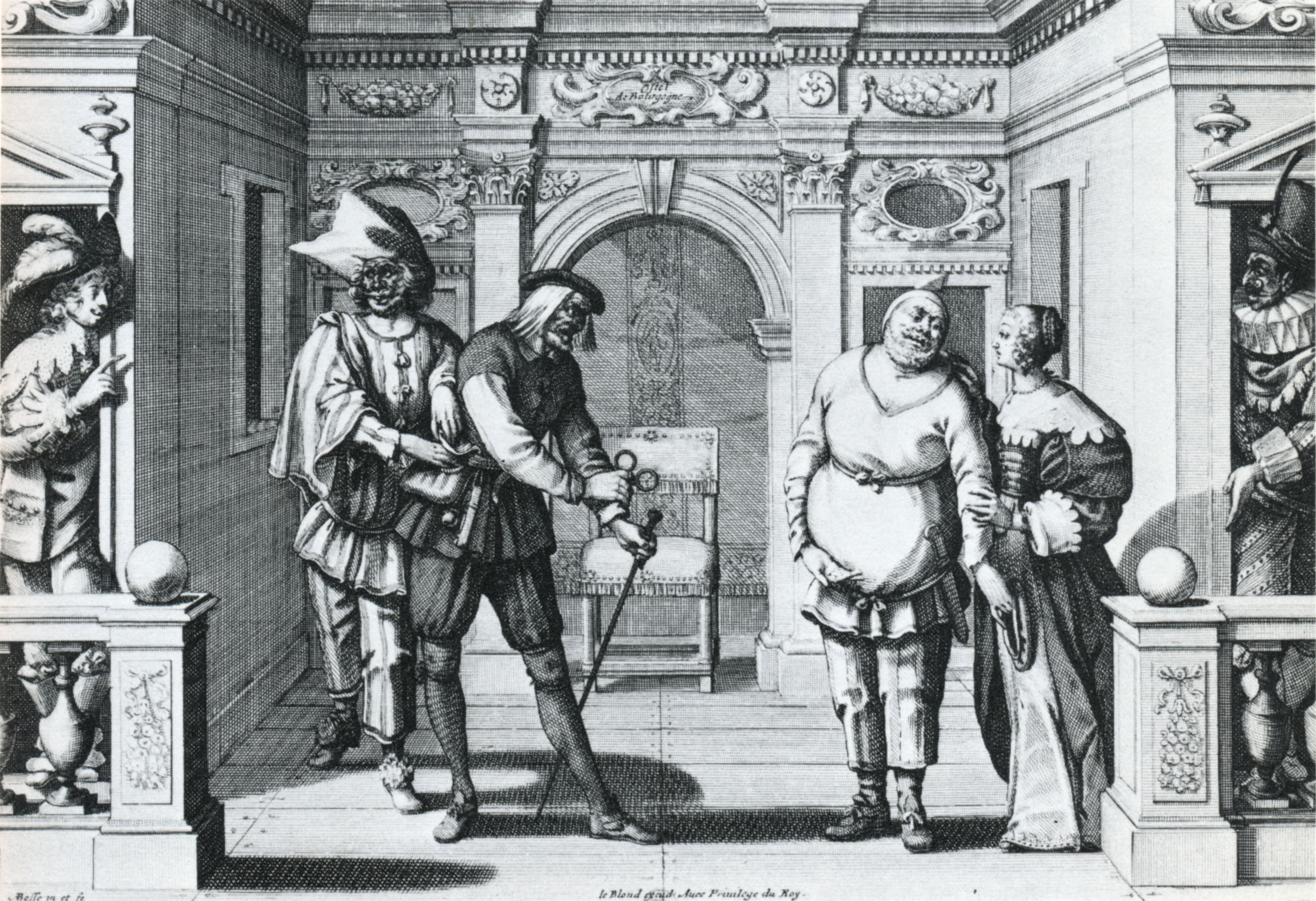 Stage set at the theatre of the Hôtel de Bourgogne. The chair indicates an interior. The characters portrayed show that a comedy is in progress. They are from left to right: "the watching Frenchman"; the celebrated comic actors: "wild-faced" Turlupin, "true" Gaulthier, Gros-Guillaume; a lady; and a Spaniard (identified by his ruff). Turlupin is stealing Gaultier-Garguille's purse. The Frenchman and lady are dressed in fashionable contemporary costume. Reference: Howarth, William D., ed. (1997). French Theatre in the Neo-Classical Era 1550–1789, pp. 197–198. Cambridge: Cambridge University Press. ISBN 978-0521100878 (digital reprint, 2008).